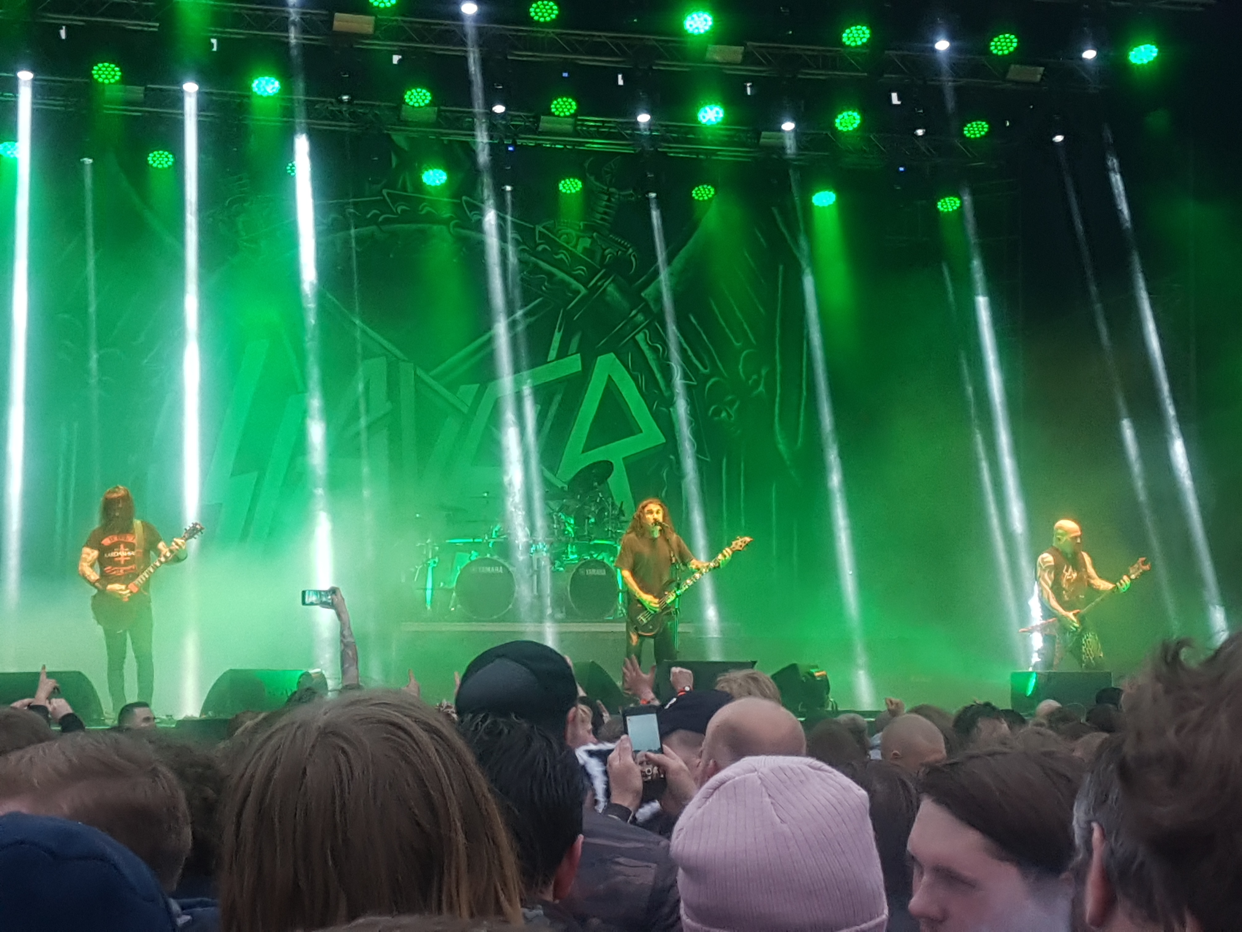 Slayer